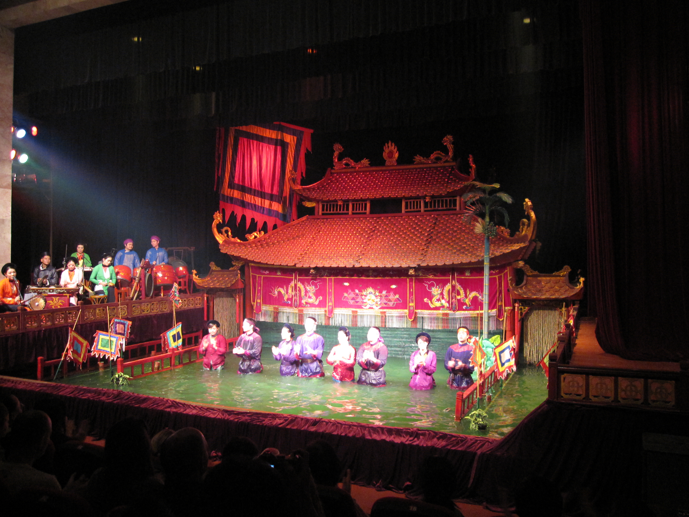 Thang Long Water Puppet Theatre in Hanoi